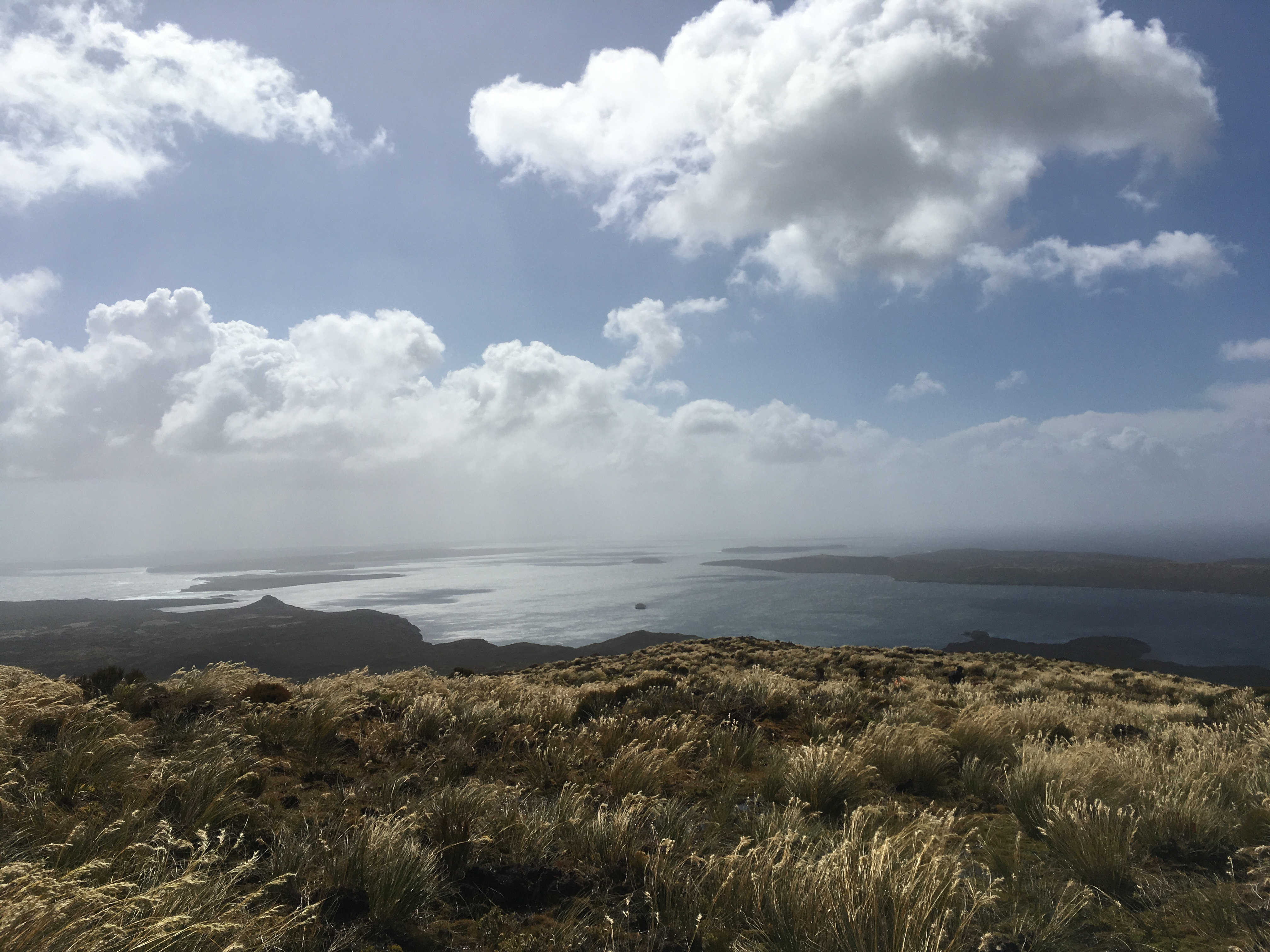 Looking north across alpine tussock towards Deas Head, Rose Island and Enderby Island.